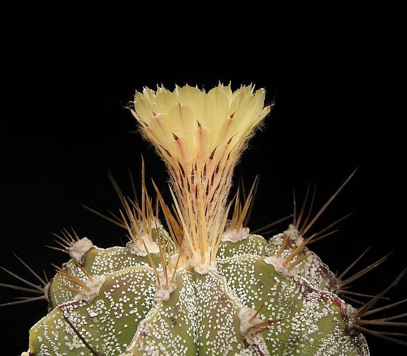 Astrophytum ornatum